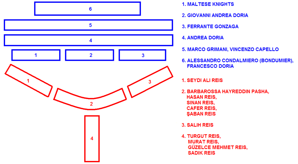 Fleet configurations at the naval Battle of Preveza in 1538